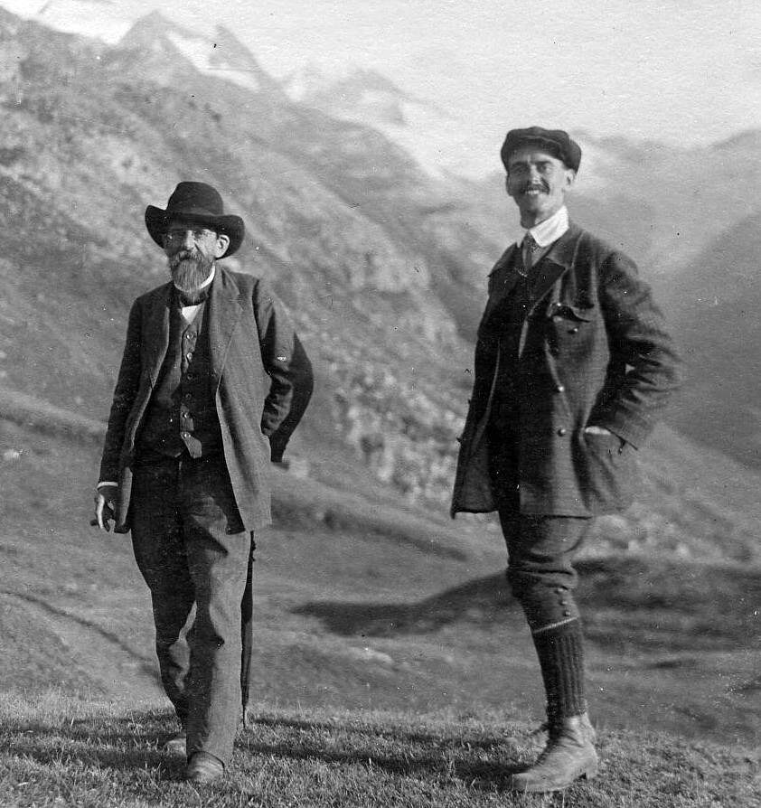 German Professor Dr. Adolf Schlatter walking in the mountains with his son Theodor